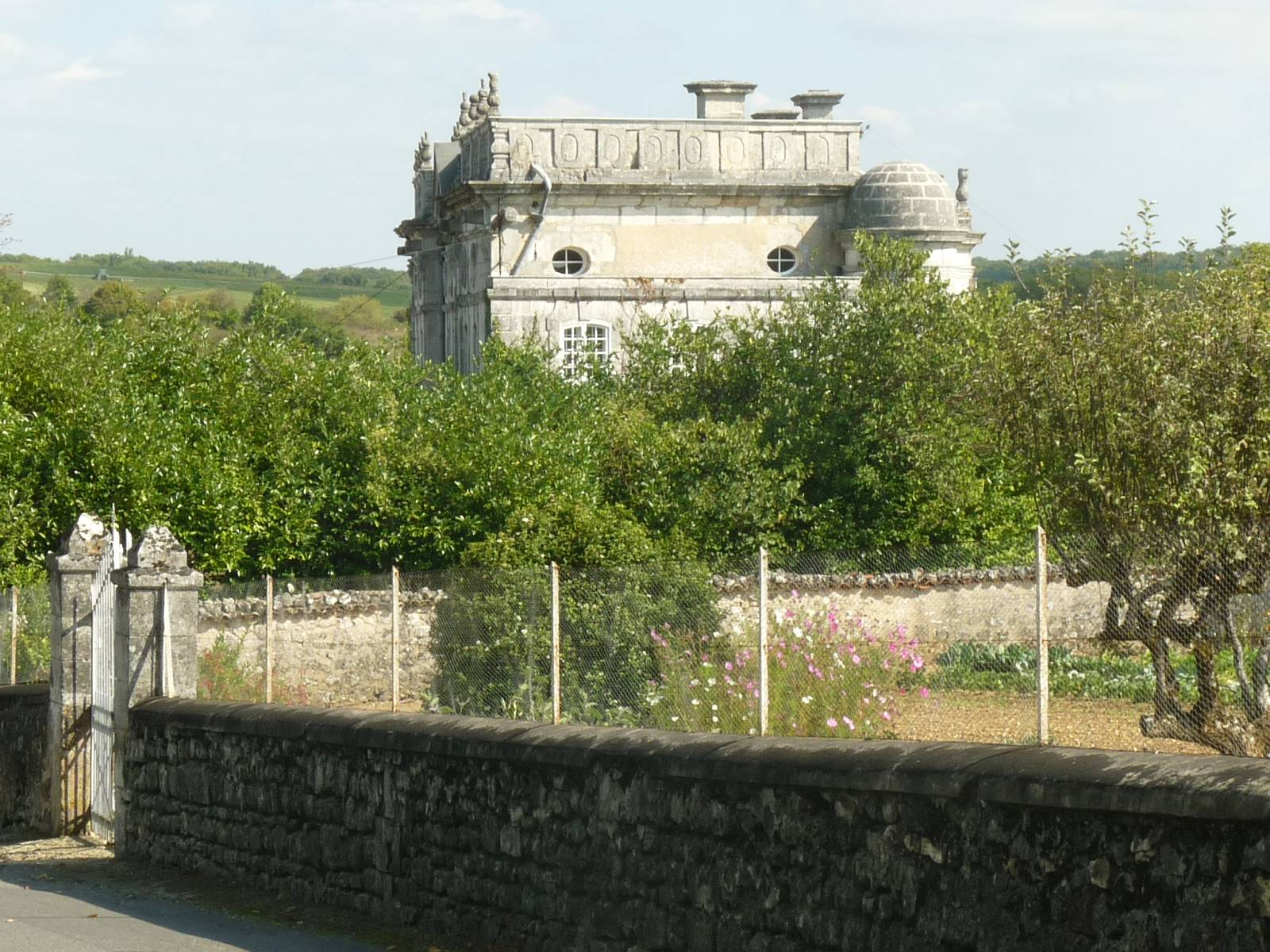 castle